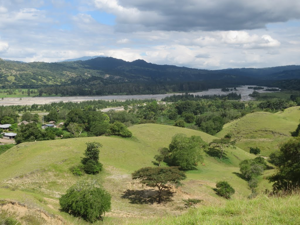 Laleia River and Casuarina woodland and savanna 13 Apr 2013.jpg